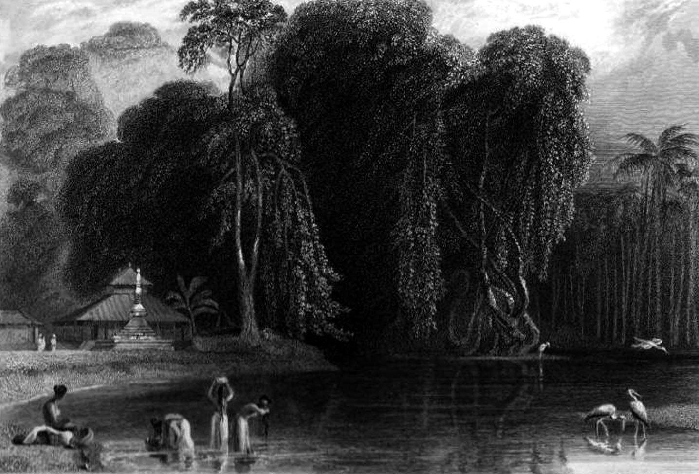 An engraved view of the Malabar based on Mr. Daniell's drawings, 1835